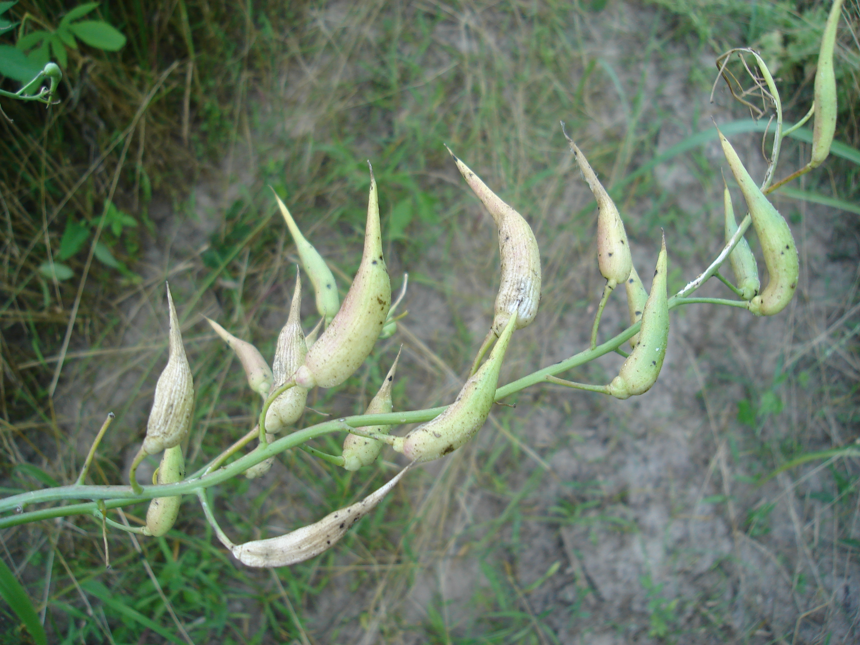 Picture of some Radish Seedpods